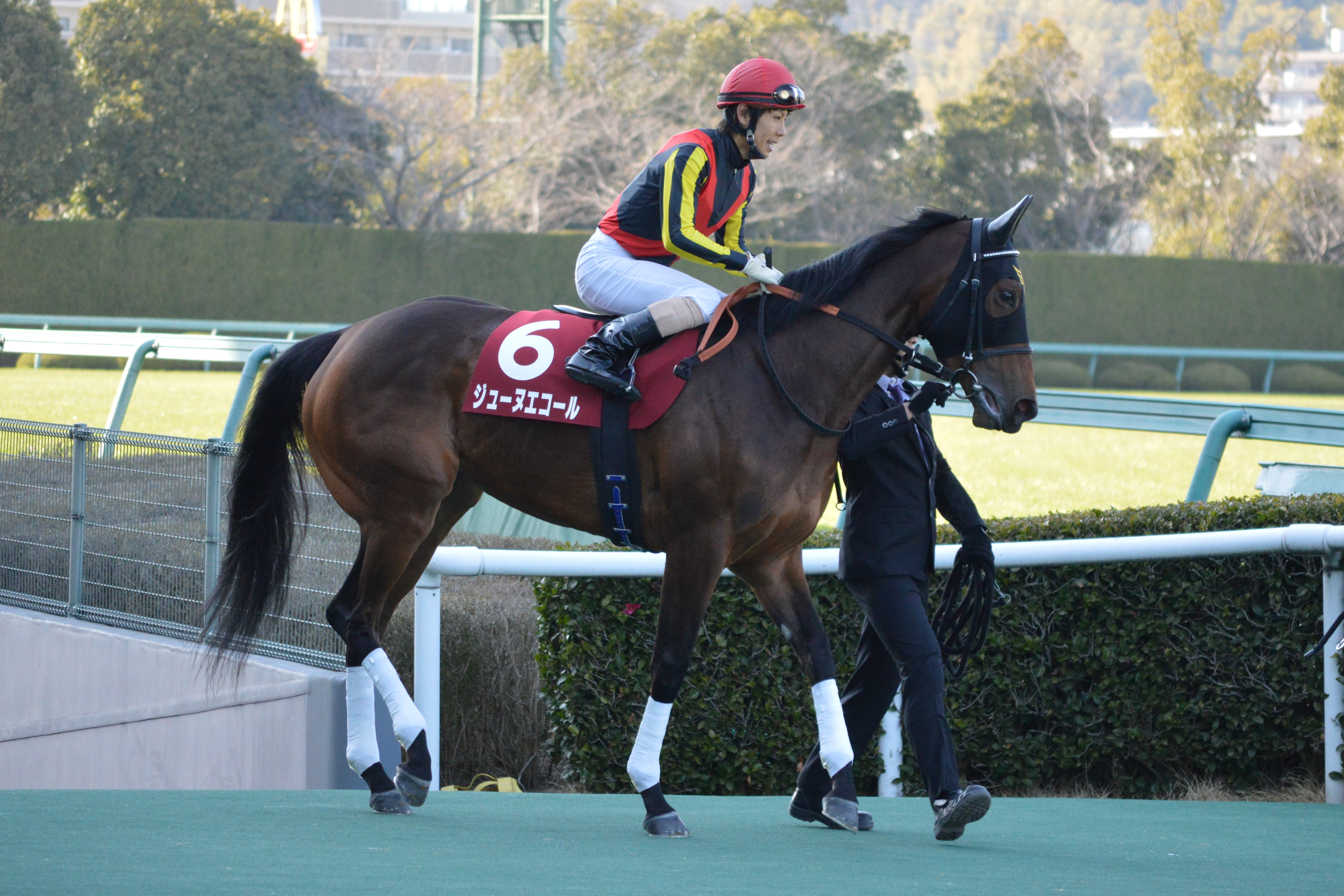 Japanese race horse Jeune Ecole at Hanshin racecourse.